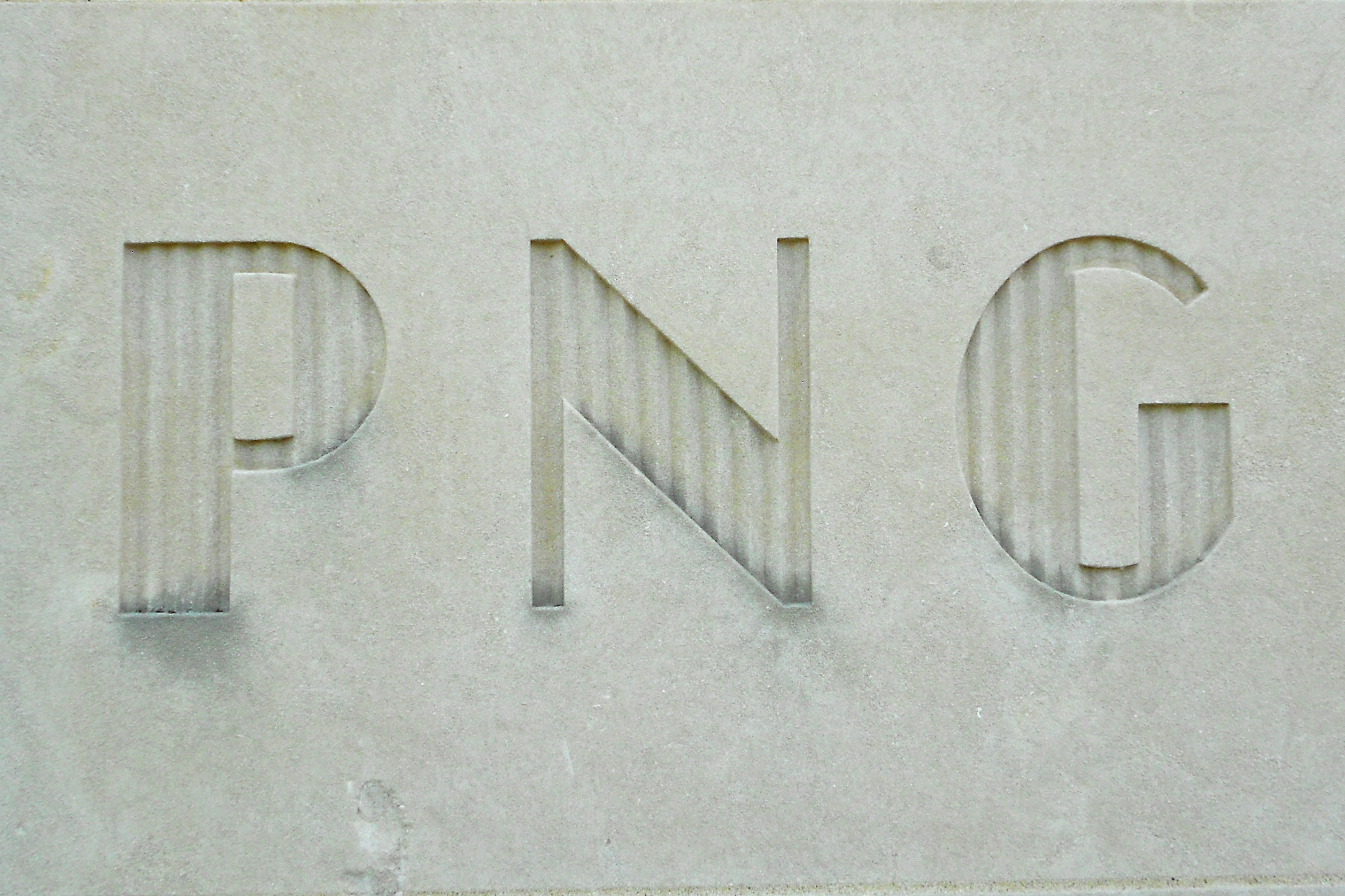 Marker stone on the Hamburg Armory, which was listed on the NRHP on May 9, 1991. At North 5th Street, south of Interstate 78, Hamburg, Berks County, Pennsylvania. The "PNG" very likely stands for "Pennsylvania National Guard."